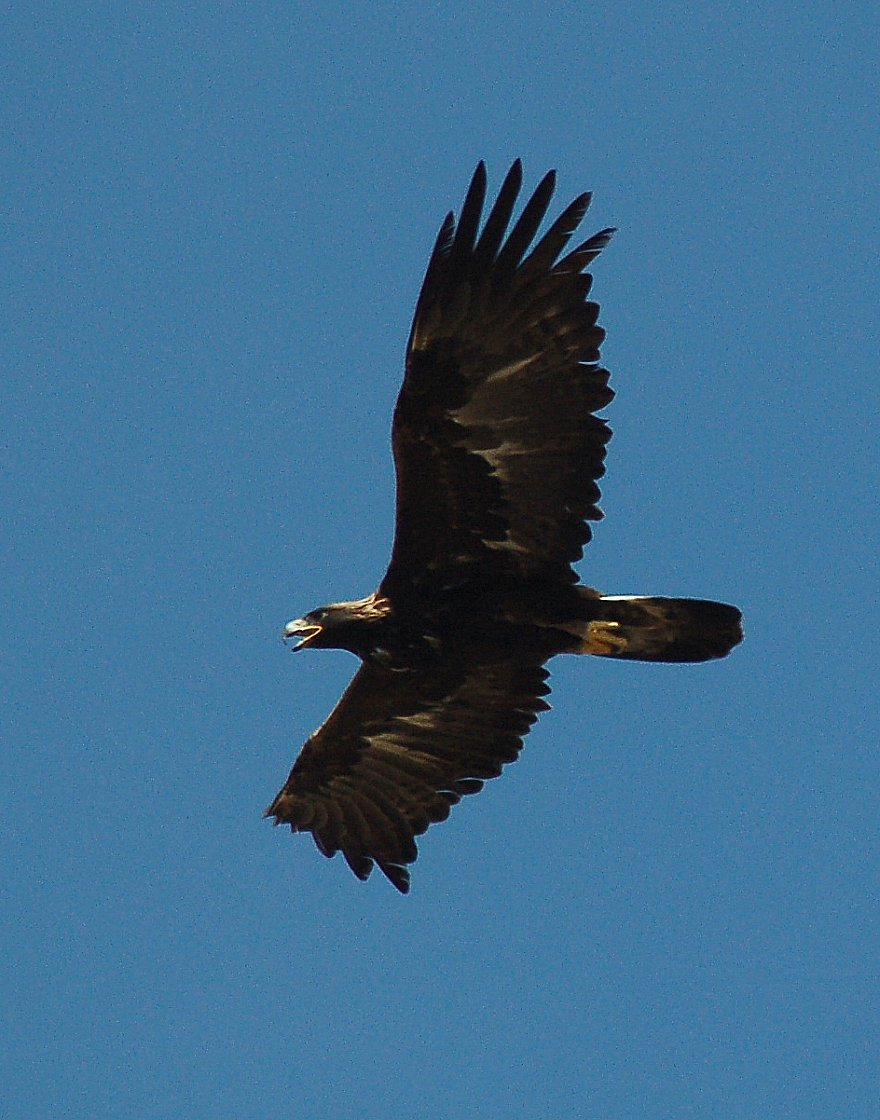 We went looking for them and actually found one! Rabbit Mountain, Boulder county, Colorado